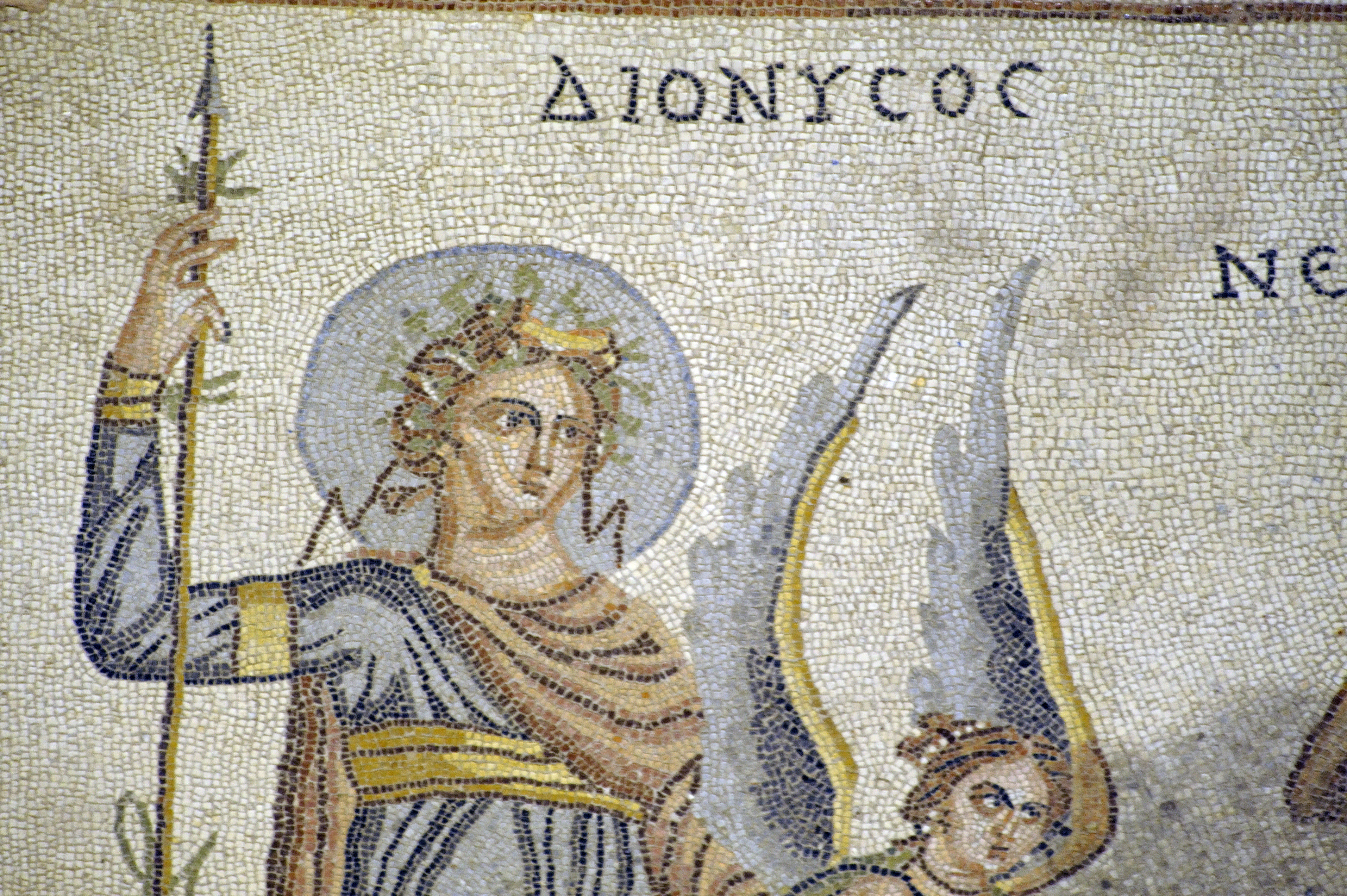 The persons can be identified as their names are shown: Dionysos, Nike and a maenad. Dionysos stands on one of two panthers pulling a wagon with spoked wheels. He has a nimbus. In his right hand he holds a thyrsos. He wears a long tunic . Next to him stands Nike, who handles the panthers. To the right a maenad dances with a cymbal.